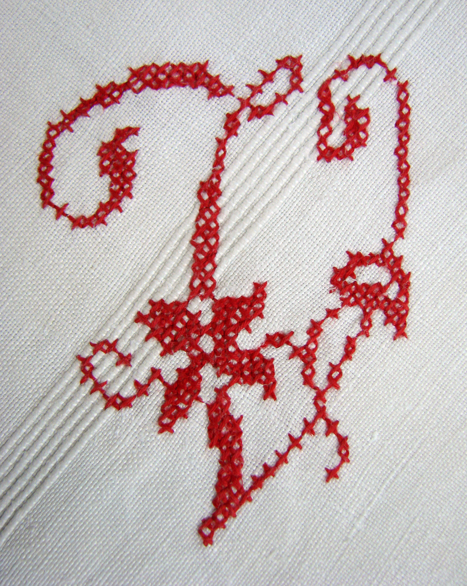 Letter on a sheet,cross stich.